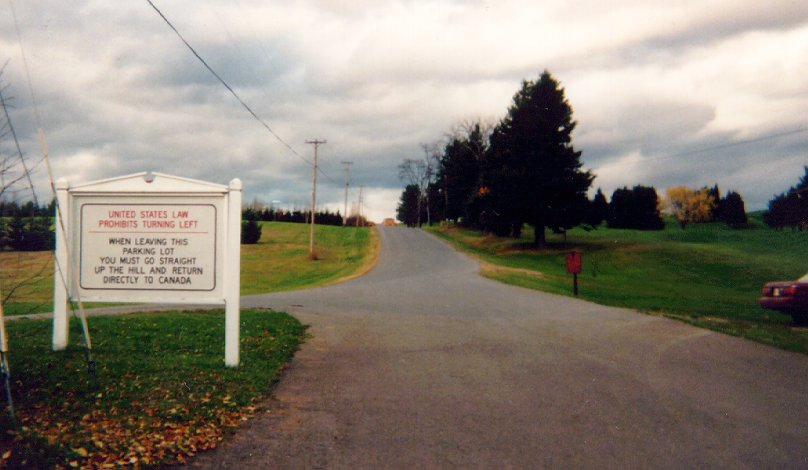 Aroostook Valley Country Club Warning Sign - This sign used to direct golfers who entered from Canada to proceed up the hill directly back into Canada. In 2008, the US Border Patrol changed its policy and refused to allow Canadian golfers to enter from Brown Road. They now must drive to an open US border station, submit to an inspection, then travel to the course on US roads. This sign has since been removed.